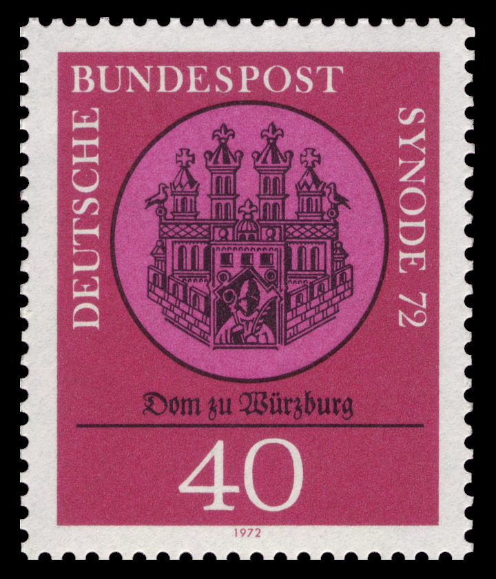 Synod of the catholic dioceses in Würzburg Graphics by Ackermann Ausgabepreis: 40 Pfennig First Day of Issue / Erstausgabetag: 13. Dezember 1972 Michel-Katalog-Nr: 752